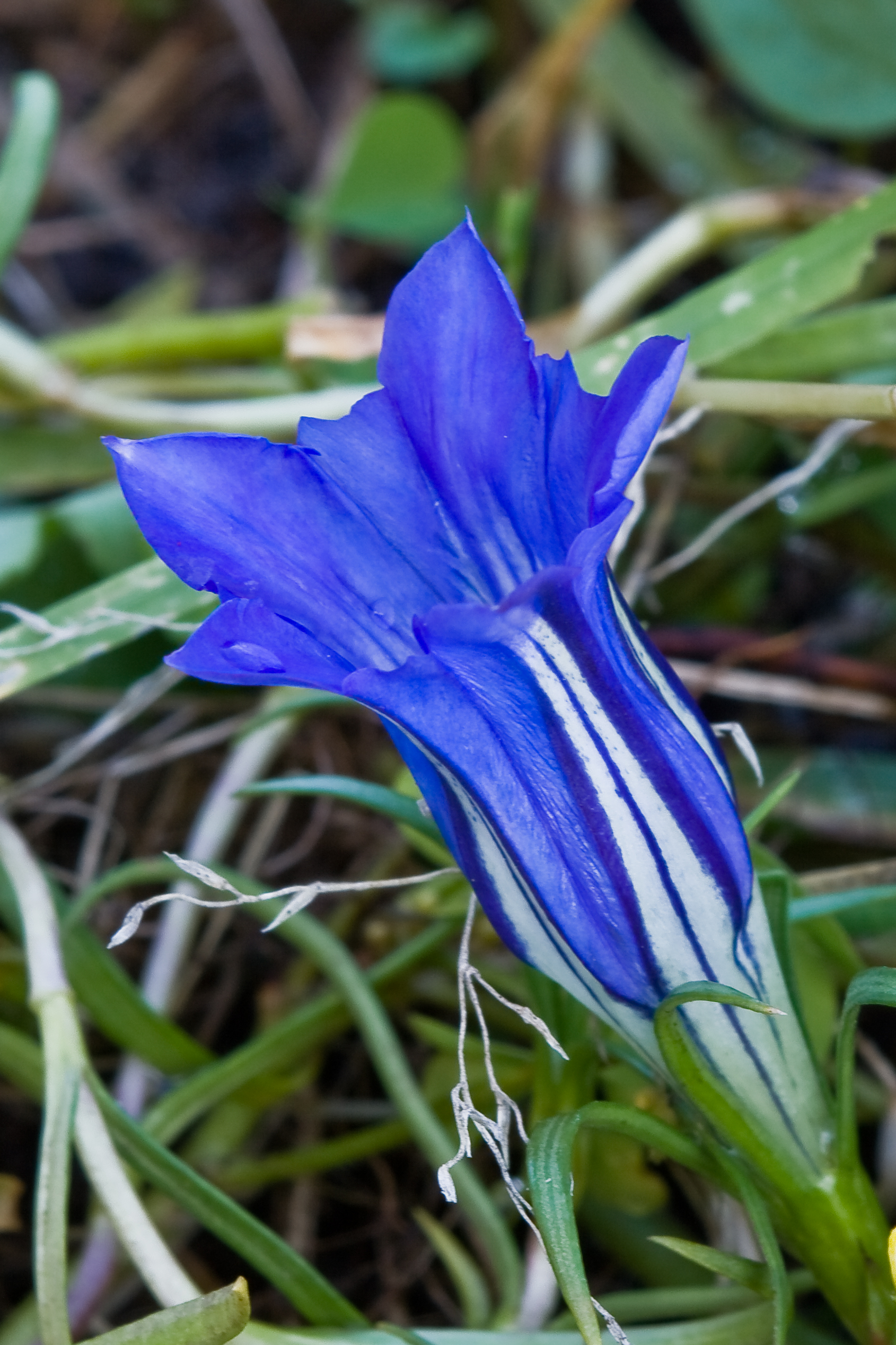 Gentian flower